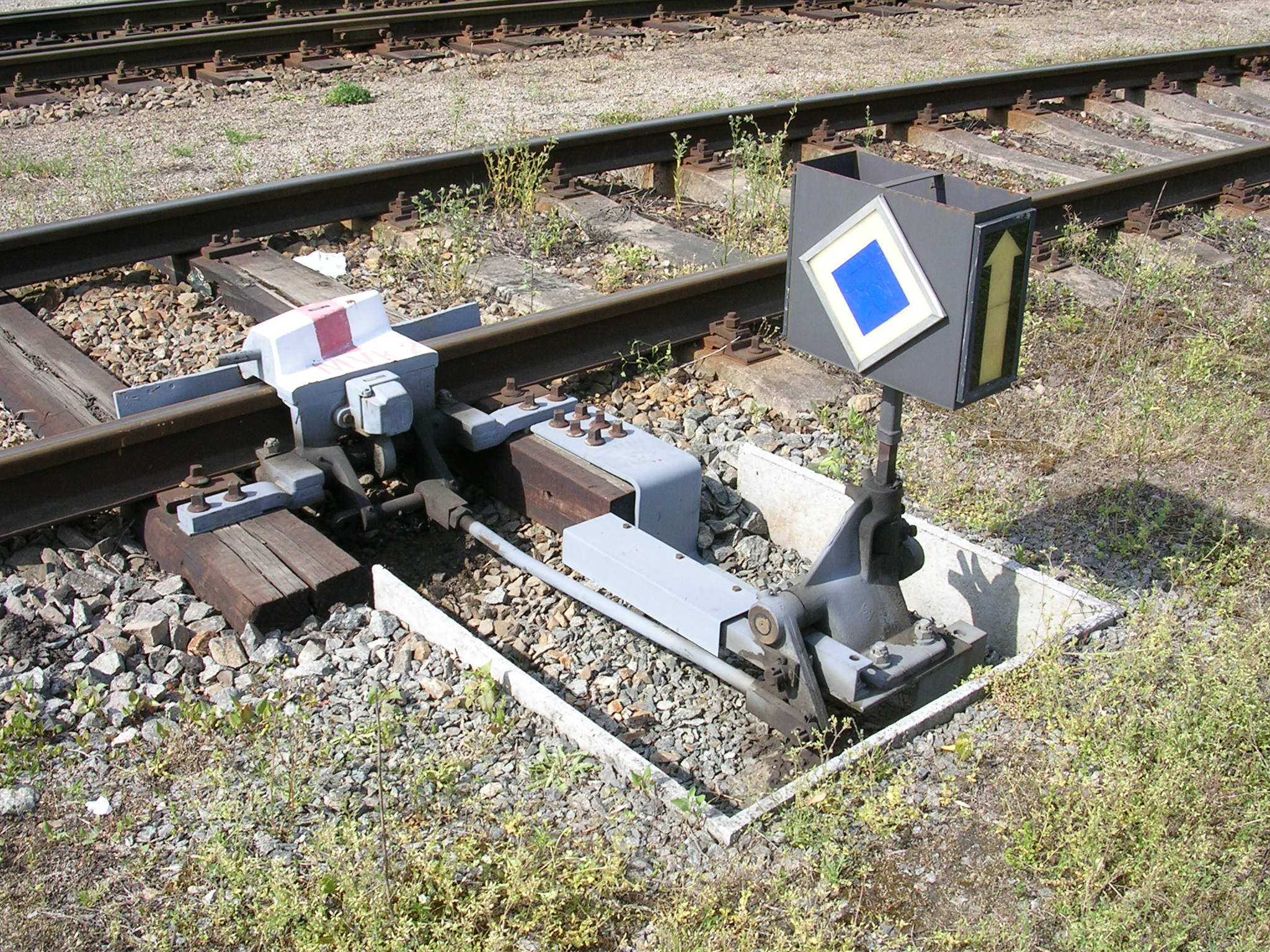 Boršov nad Vltavou, České Budějovice District, South Bohemian Region, the Czech Republic. A derail at an industrial siding.